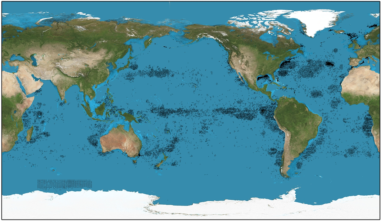 A map showing the distribution of sightings of sperm whales, based on the records of whalers and surveyors. Sperm whales can be found in virtually any part of the ocean not covered by ice, but are most often spotted in certain "grounds" where they like to feed or breed. Map is centered on the Pacific (160° W). This map was made using GeoCart and data from